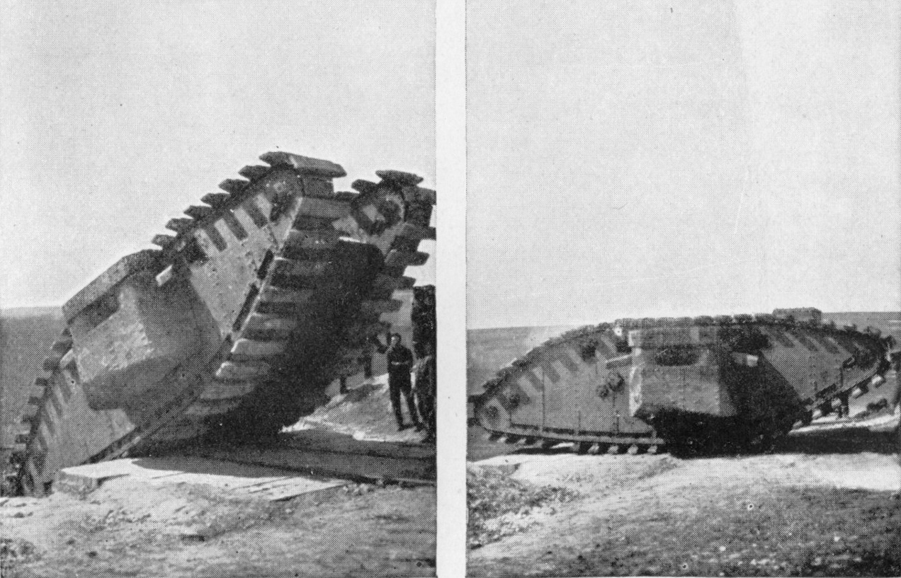 The tank tilts forward and settles on level ground ready for action.